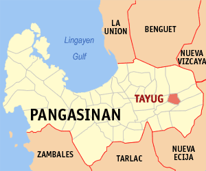 Map of Pangasinan showing the location of Tayug